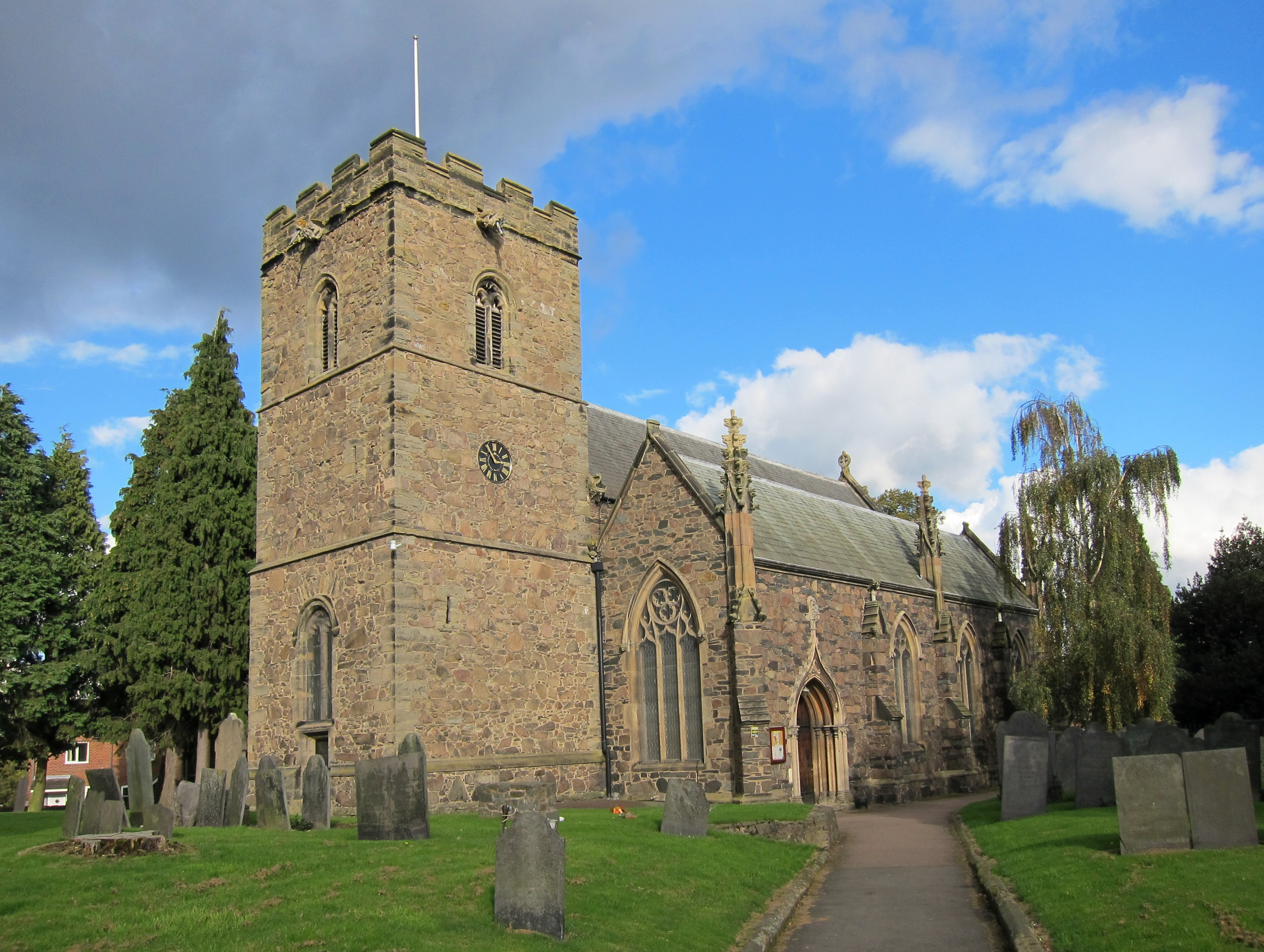 St Mary's Church, Anstey, Leicester, view from near churchyard entrance on south-west.